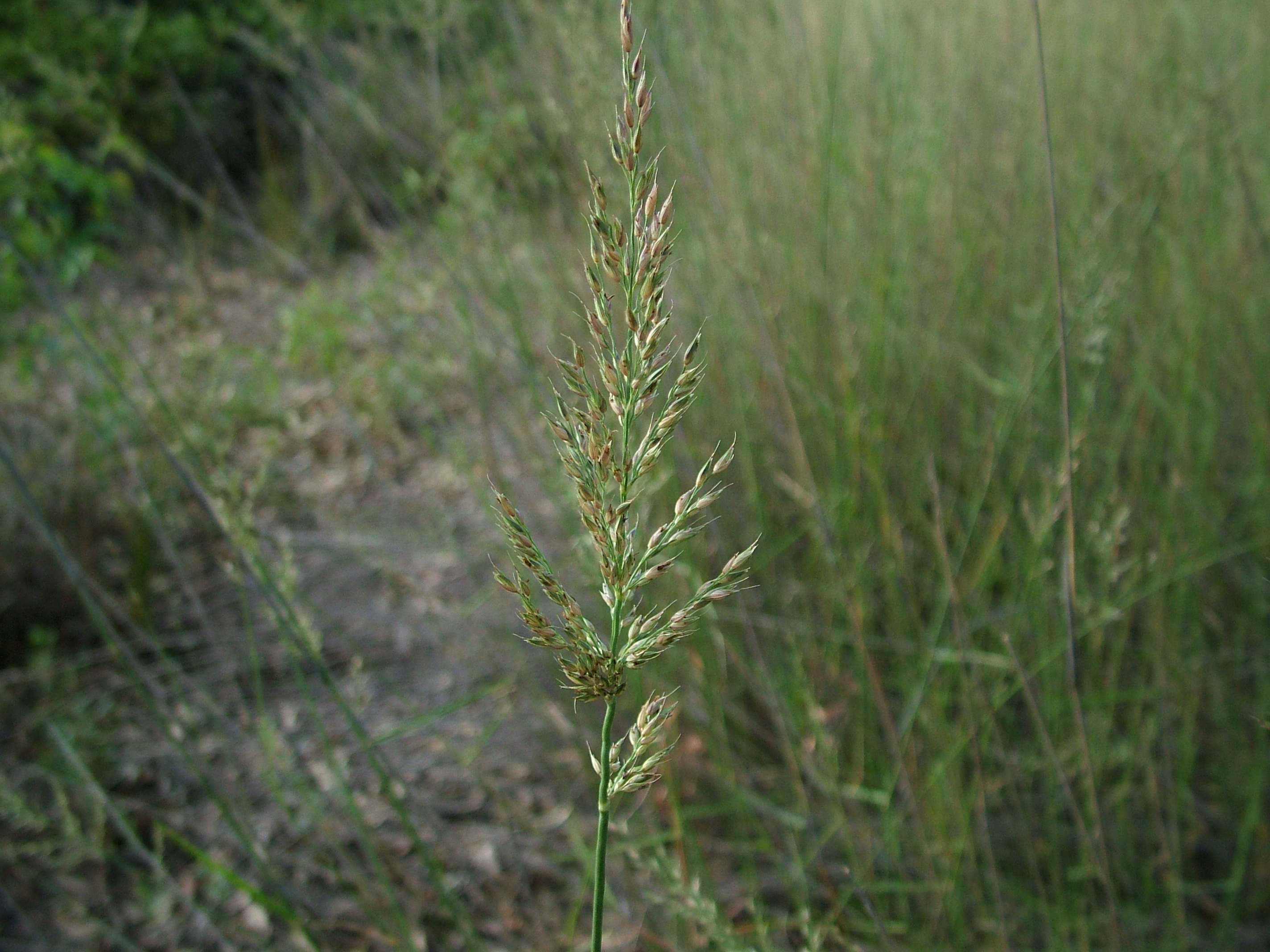 Flowerheads are loosely-contracted to pyramidal open panicles 10-40 cm long. Spikelets are 4-7 mm long, 2-flowered and brownish. Upper lemma has a twisted and bent awn arising at/near the apex and is slightly shorter than the upper glume. Flowers after rain.